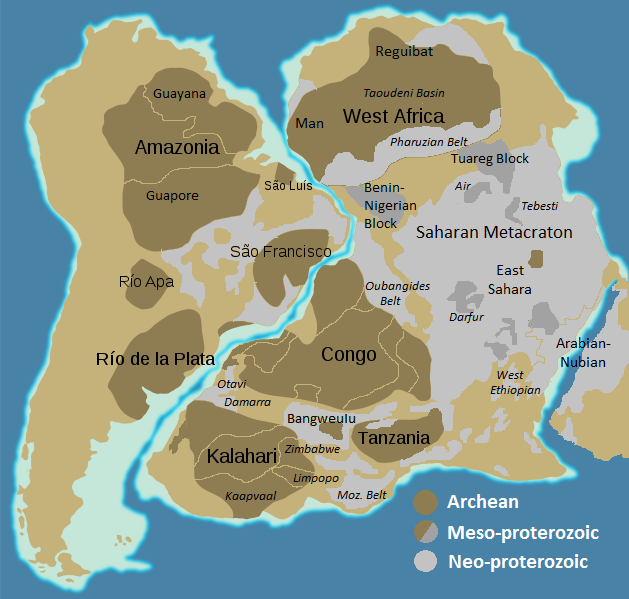 Derivative work of user Woudloper's original map. I have added substantial geological formations from a number of Scientific Sources. Including the Geological Surveys of the USA, South Africa, and Saudi-Arabia.